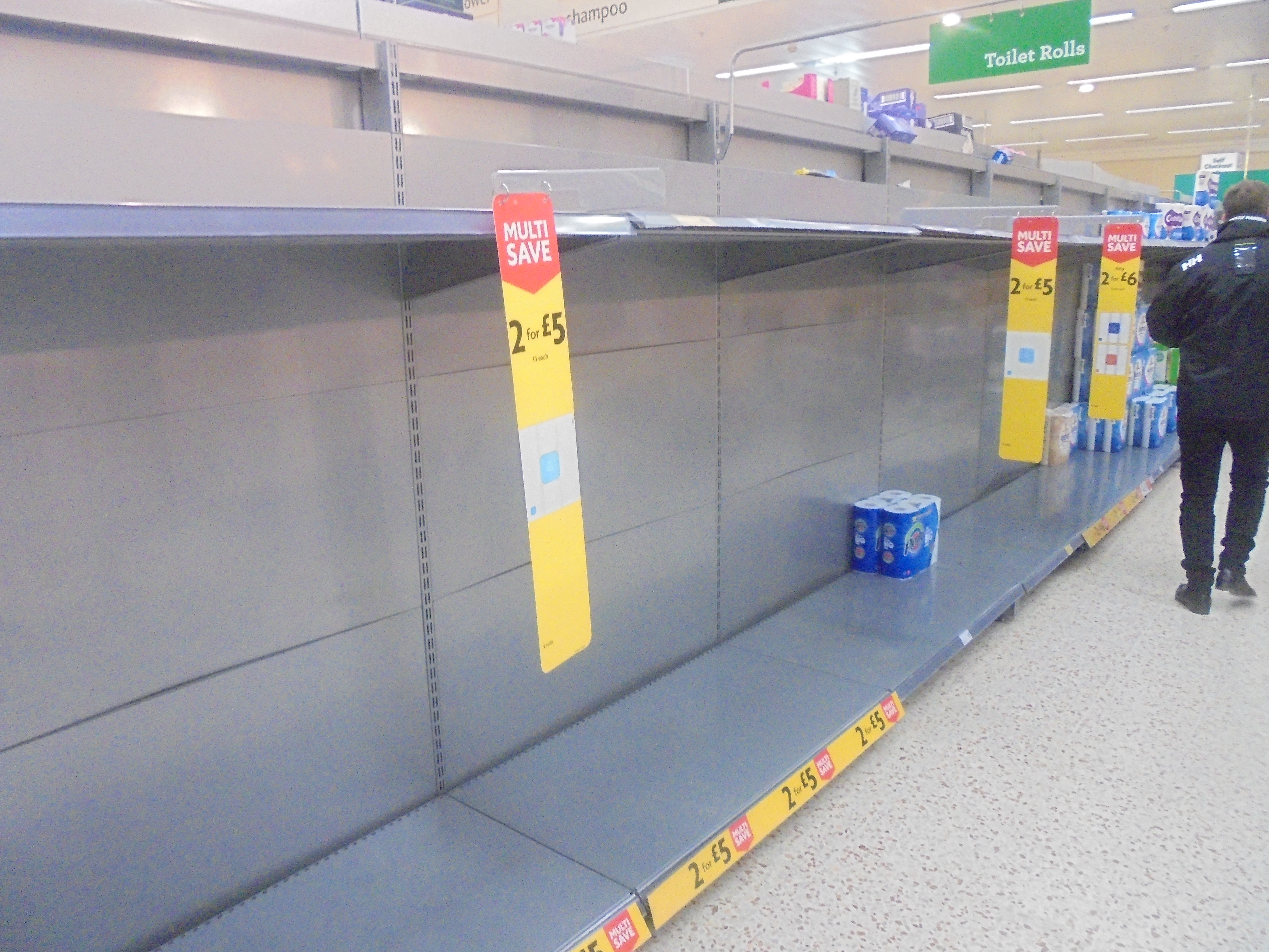 Lavatory rolls sold out due to panic buying during the 2019-20 coronavirus outbreak in Morrisons, Horsefair Centre, Wetherby, West Yorkshire. Taken around midday on Sunday the 8th of March 2020.